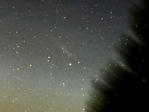 Headless comet tail of C/2015 D1 (SOHO)